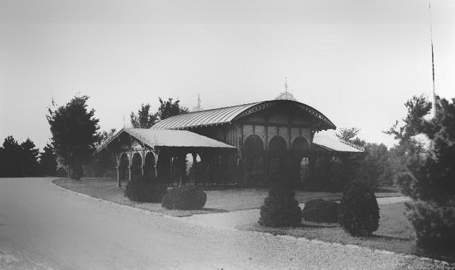 An artotype of a pavilion at Tower Grove Park in St. Louis, Missouri, United States